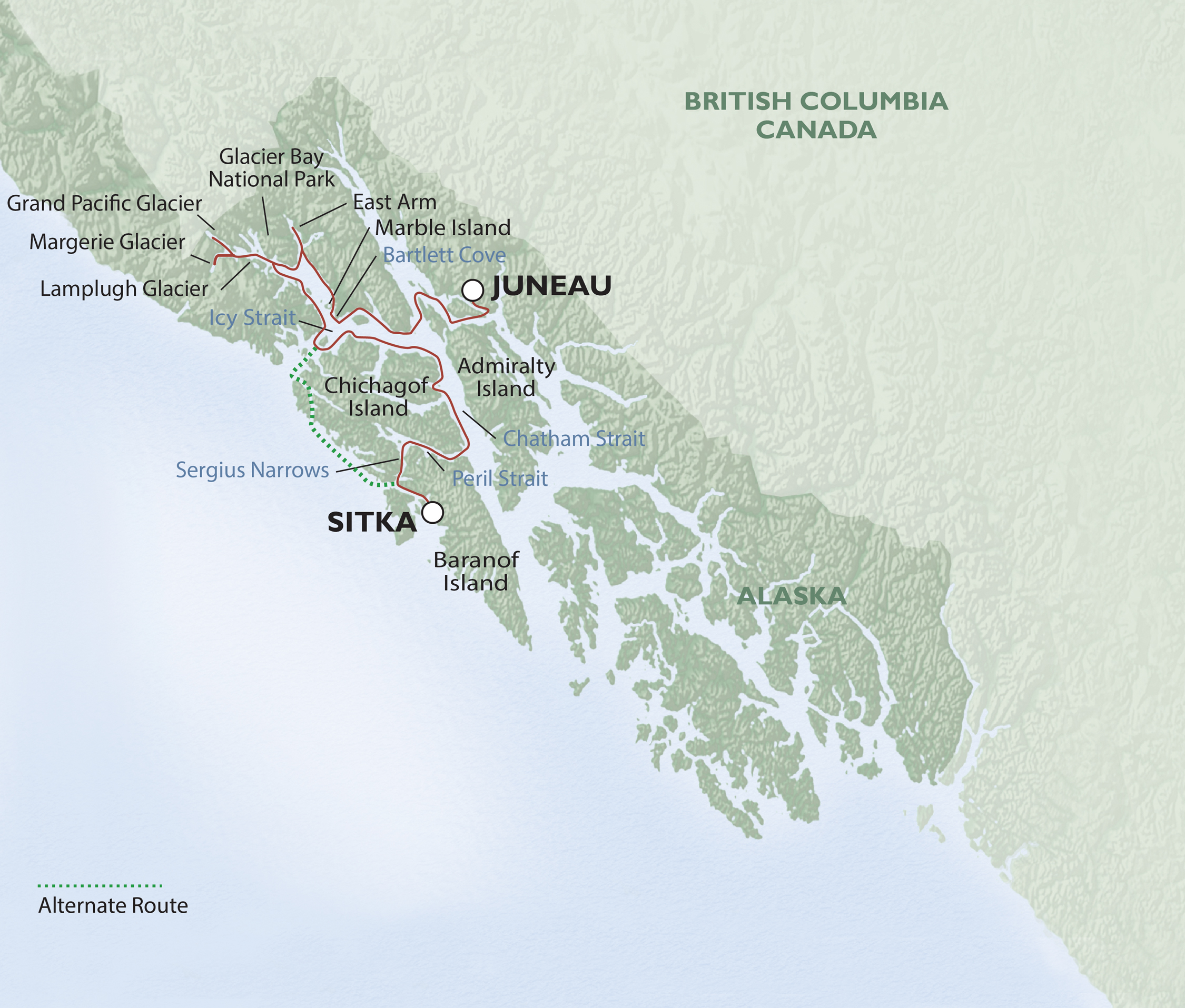 Itinerary map for Un-Cruise Adventures’ Northern Passages and Glacier Bay tour